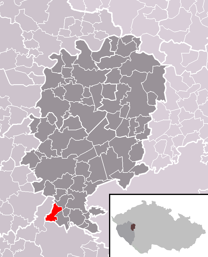 Location of Kornatice municipality within Rokycany District and within identical administrative area of Rokycany as a Municipality with Extended Competence.